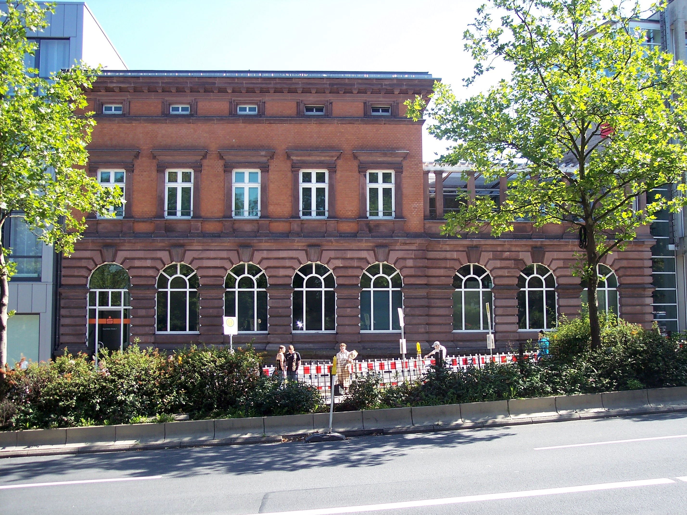 Lüdenscheid, historic bank-building